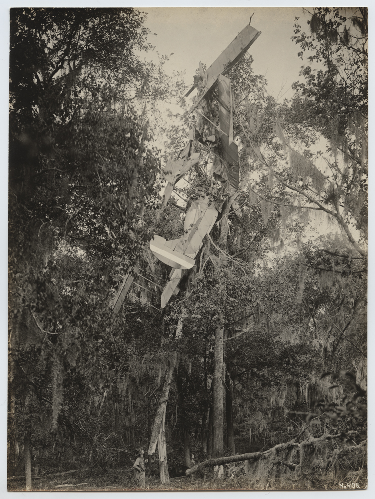 A Curtiss R-2 of the US Army Air Service - Title: The Night Hawk’s Roost Creator: Unknown Date: ca. June-October 1918 Part Of: Place: Park Place (now William P. Hobby Airport), Houston, Texas Description: This plane piloted by Louis H. Gertson (1887–1942) experienced an engine failure and he was forced to land during training at the Second Provisional Wing of the Air Service in Park Place, Texas. Source: Overseas Dreams, 1919, Press of Gulfport Printing, Houston, TX, pp. 112-113. Physical Description: 1 photographic print (postcard): gelatin silver; postcard 21 x 15 cm File: ag1985_0379_19_airplane_opt.jpg Rights: Please cite DeGolyer Library, Southern Methodist University when using this file. A high-resolution version of this file may be obtained for a fee. For details see the web page. For other information, . For more information and to view in high resolution, View the